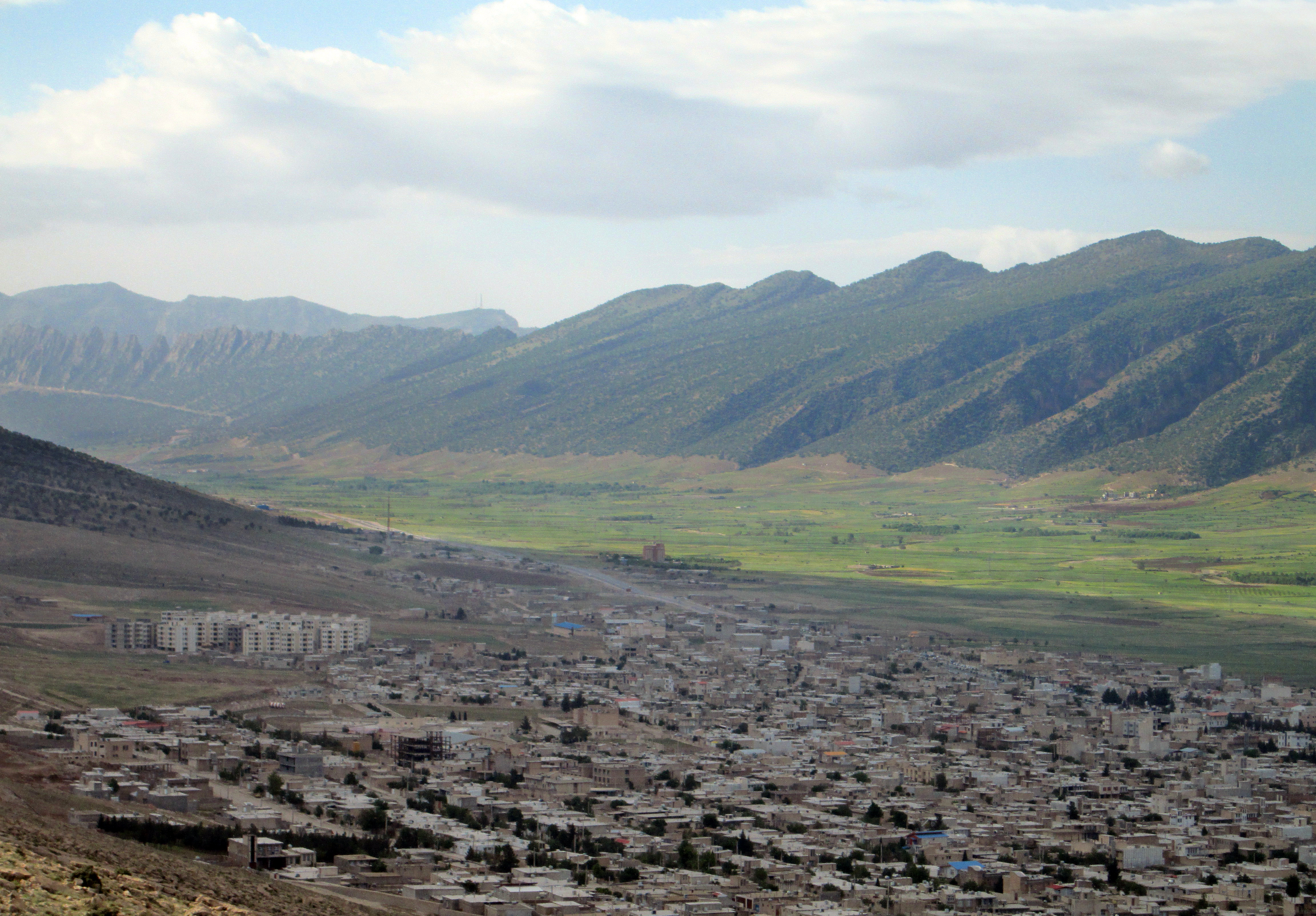 Eyvan City